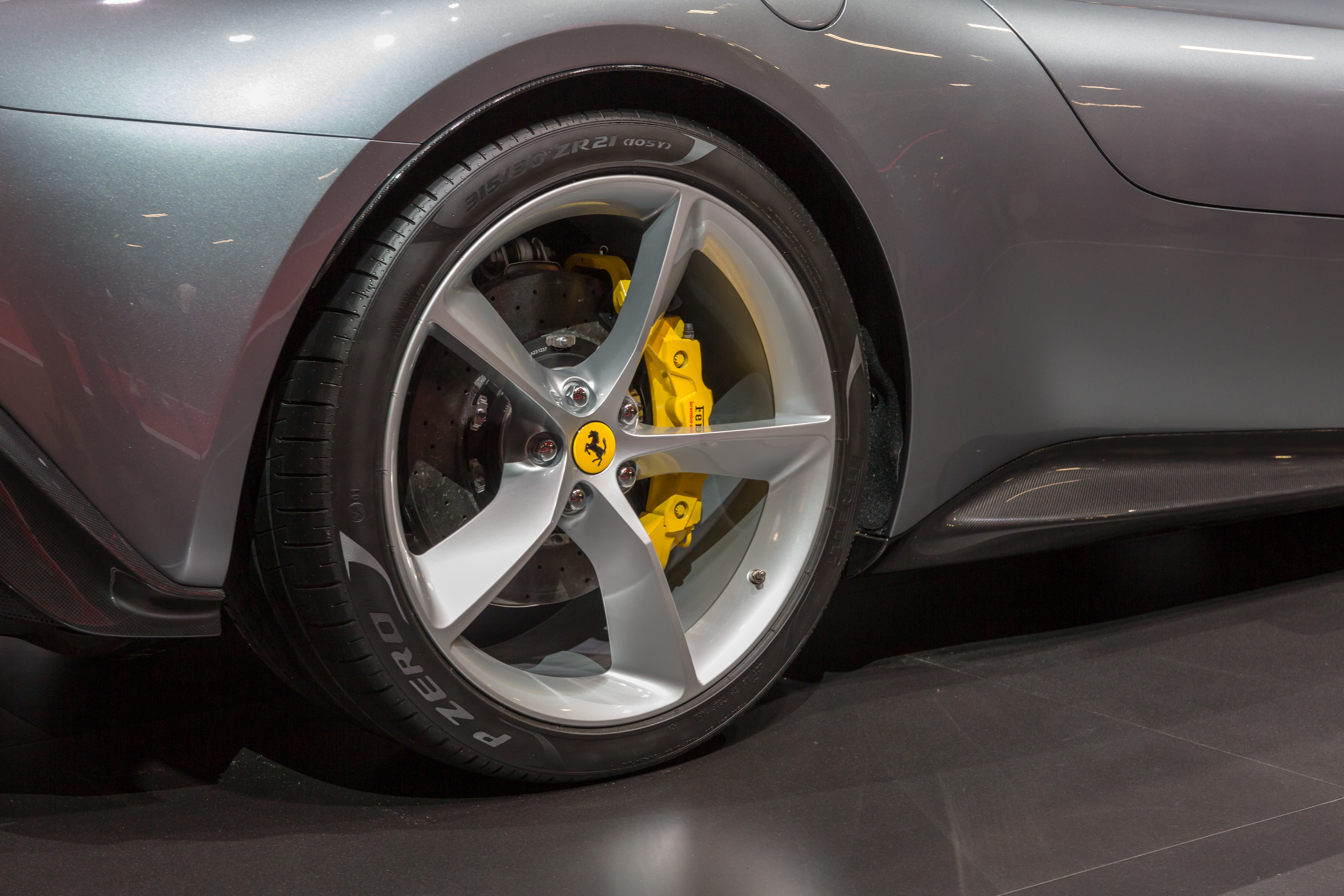 Mondiale Paris Motor Show 2018